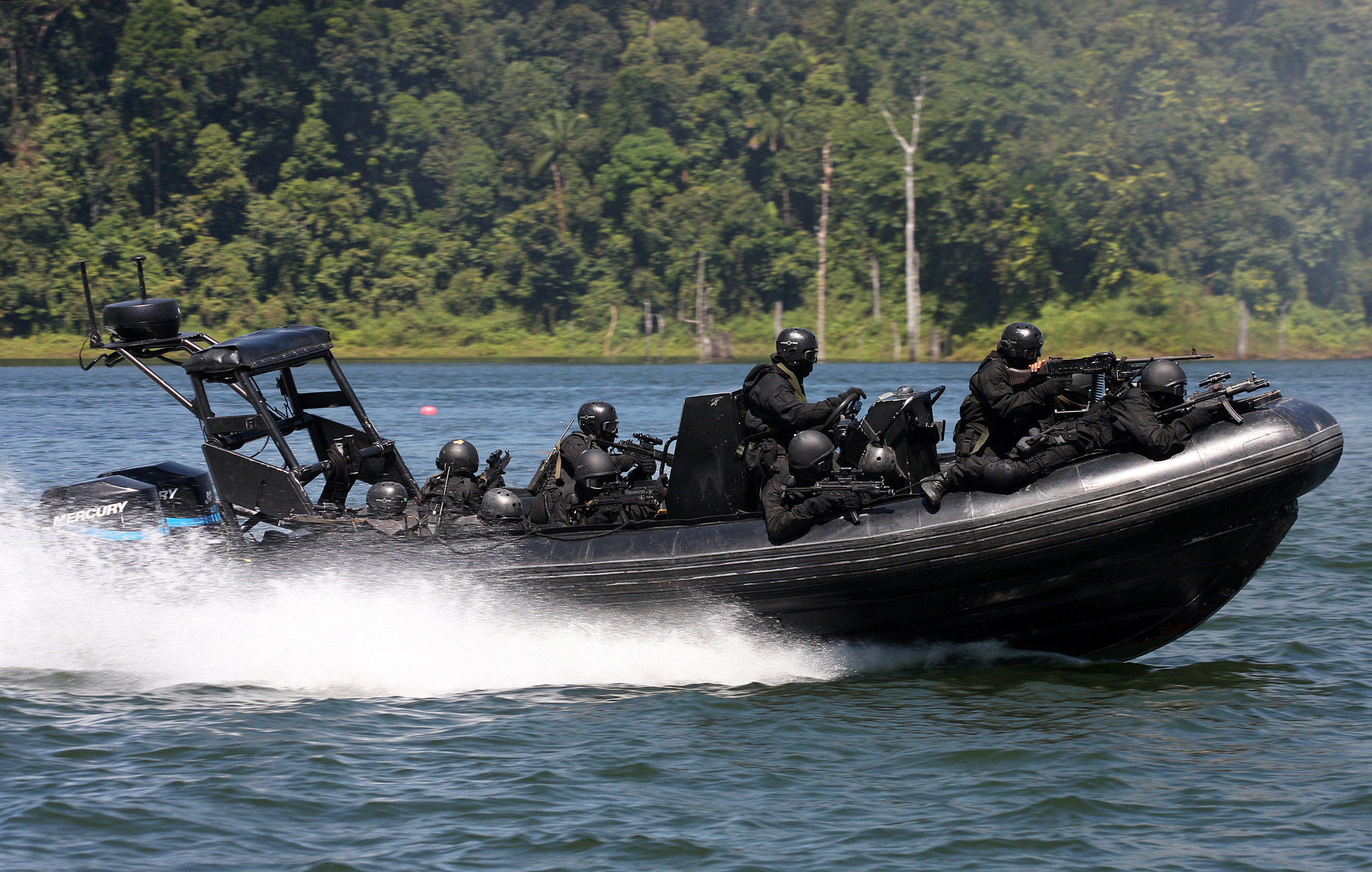 A few masked Unit Lawan Keganasan (Anti Teror) 11 Rejimen Gerak Khas soldiers using a Rigid-hulled Inflatable Boat during a demonstration at Tasik Banding, Perak Darul Ridzuan, Malaysia.